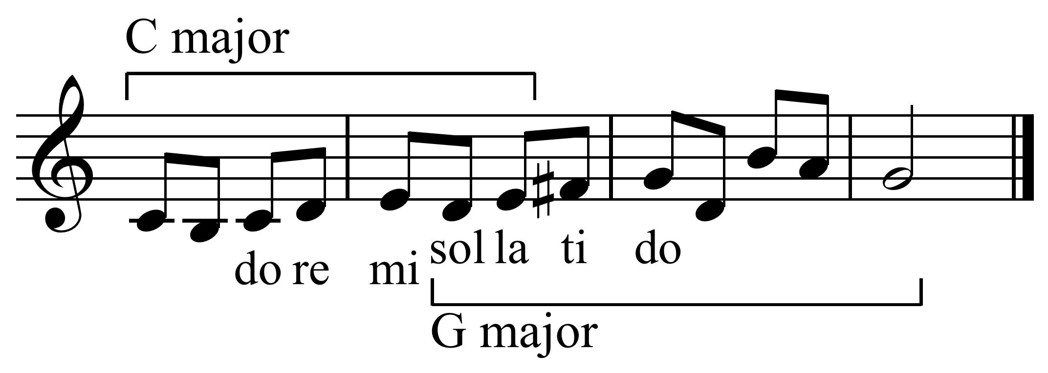 Example of modulation to the dominant from vocal music (1836). Labelled. Brackets, keys, and solfege in C major added.